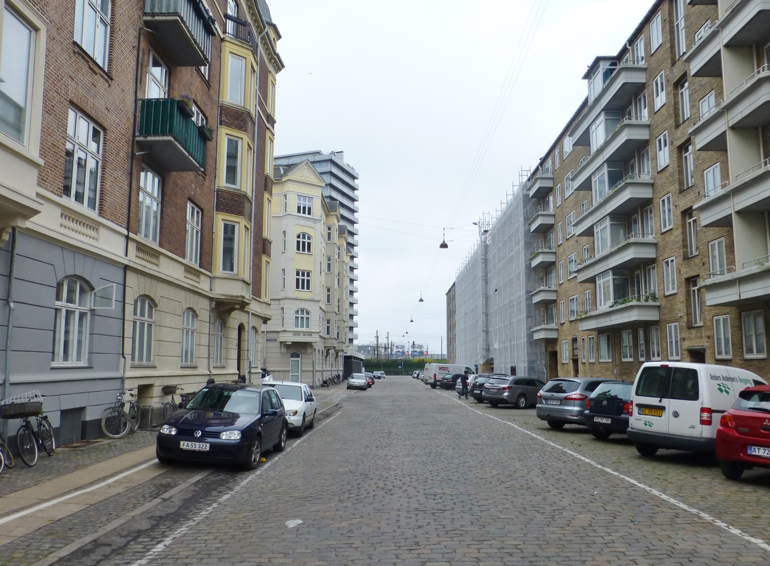 The street Jens Munks Gade in Østerbro in Copenhagen.